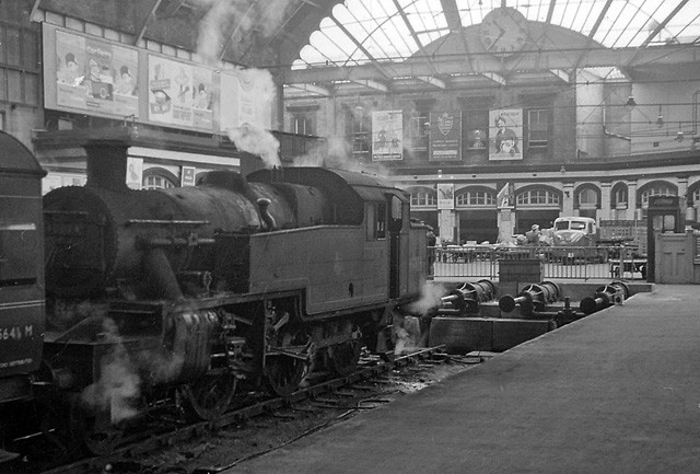 Bradford Exchange Station, with locomotive. View to buffer-stops and front screen of the station; ex-L&Y terminus of main lines from Manchester via Halifax and services from Huddersfield and Thornhill via Low Moor, also of ex-GNR trains from Wakefield and Leeds (Central). This station was closed 14/1/73 when the new Bradford Interchange was opened about 200 yards to the south and took over its traffic. The locomotive is an LMS Stanier Class 3P 2-6-2T.